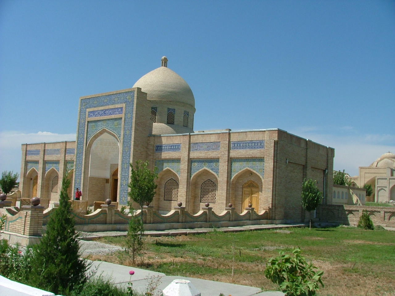 See